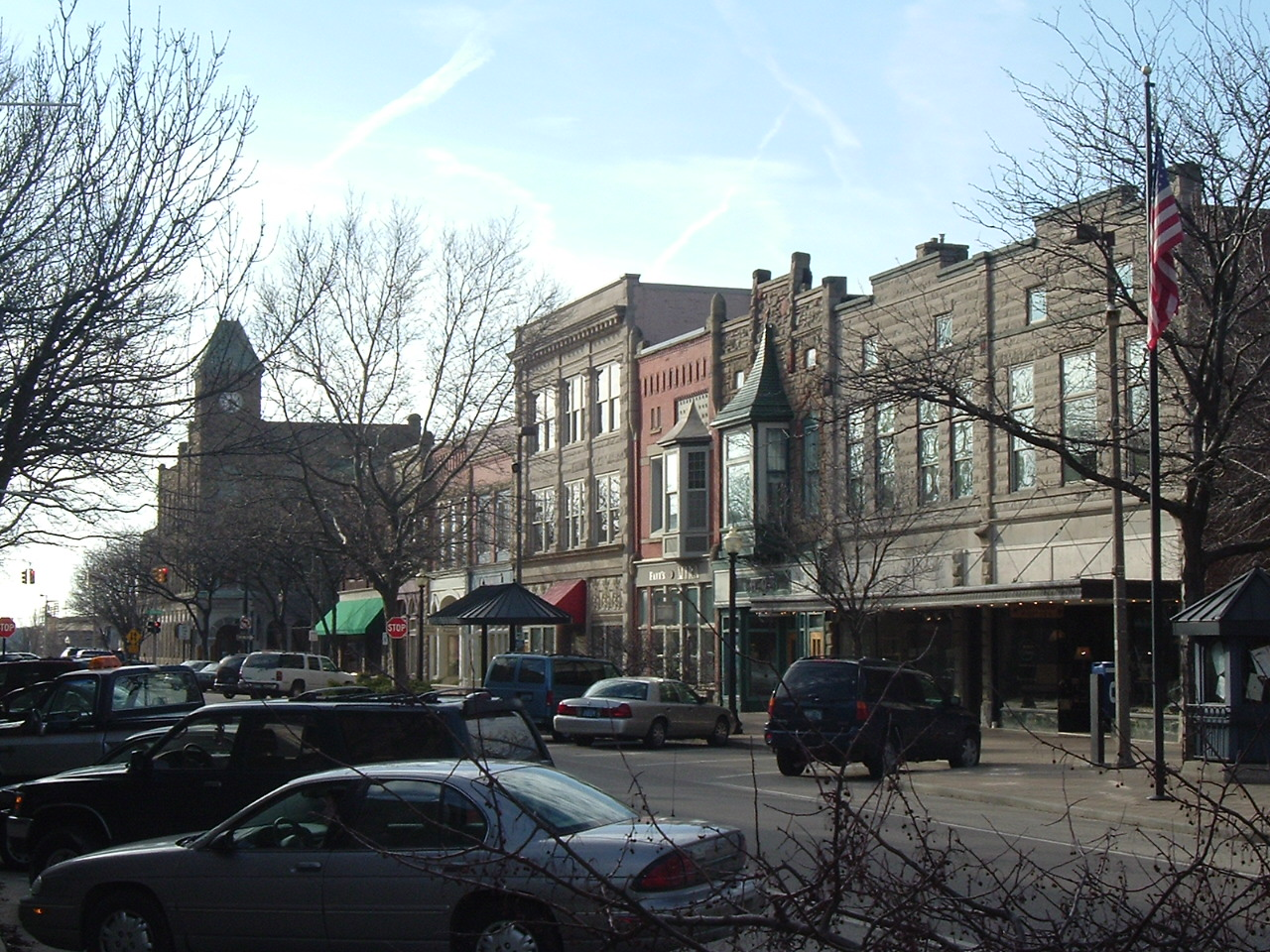 Holland, Michigan.